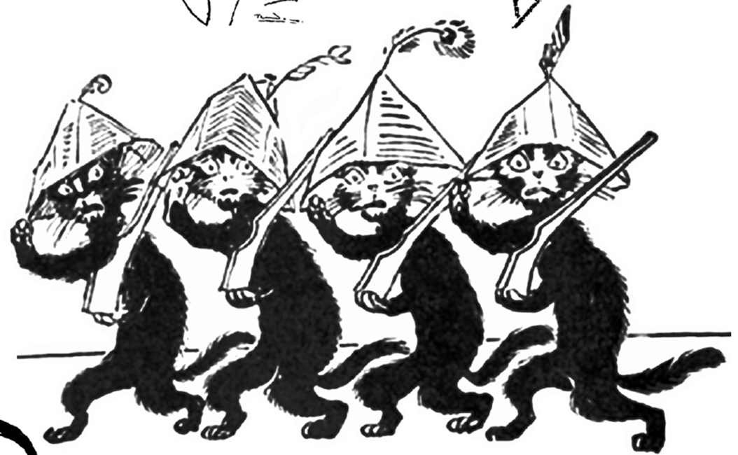 Cartoon of Ricardo Rendon, depict of the leopardos